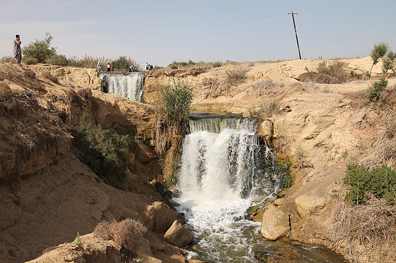 Waterfalls between upper and lower lakes in the Wadi el-Raiyan (Wadi el-Rayyan), Egypt